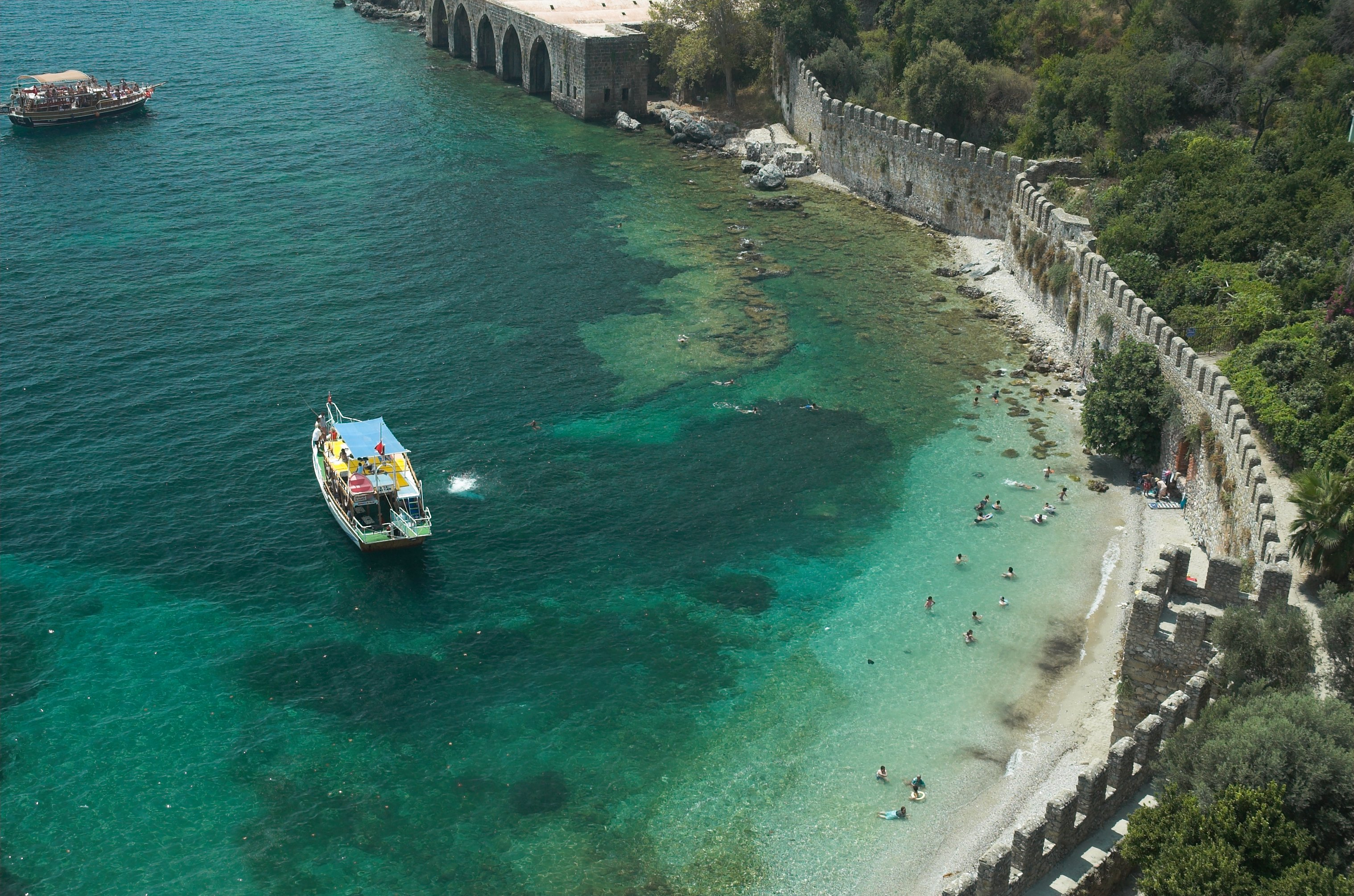 View from the Red Tower towards the dockyard and beach